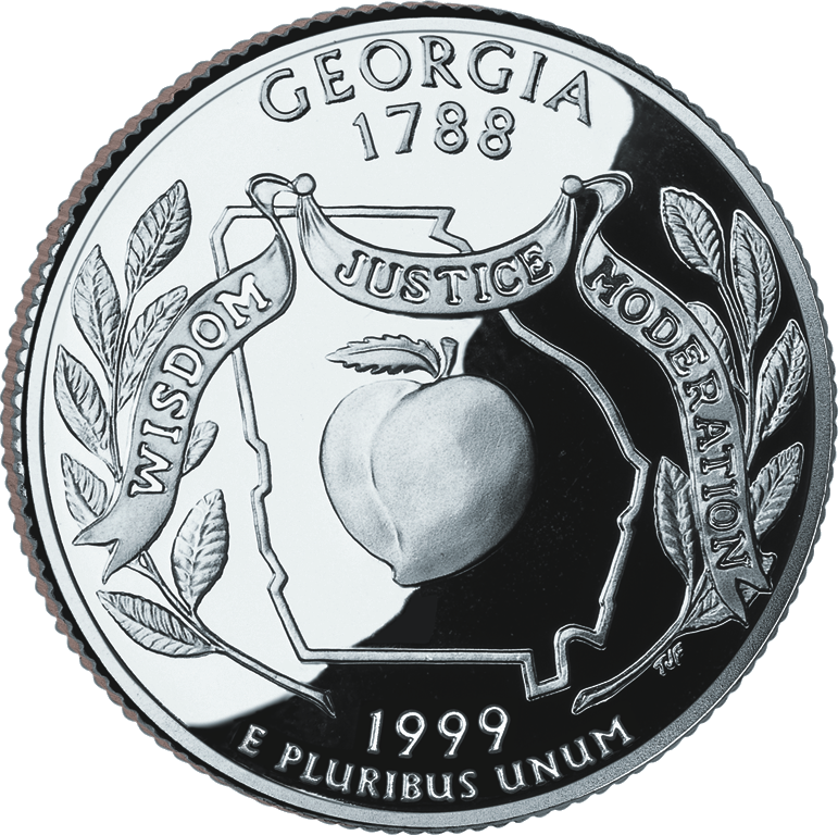 Removed background, cropped, and converted to PNG with Macromedia Fireworks. This image depicts a unit of currency issued by the United States of America. If Fraudulent use of this image is punishable under applicable counterfeiting laws. As listed by the United States Secret Service at money illustrations, the Counterfeit Detection Act of 1992, Public Law 102-550, in Section 411 of Title 31 of the Code of Federal Regulations (31 CFR 411), permits color illustrations of U.S. currency provided:1. The illustration is of a size less than three-fourths or more than one and one-half, in linear dimension, of each part of the item illustrated;2. The illustration is one-sided; and3. All negatives, plates, positives, digitized storage medium, graphic files, magnetic medium, optical storage devices, and any other thing used in the making of the illustration that contain an image of the illustration or any part thereof are destroyed and/or deleted or erased after their final use. Certain coins contain copyrights licensed to the U.S. Mint and owned by third parties or assigned to and owned by the U.S. Mint [1]. For the United States Mint circulating coin design use policy, see [2]; for the policy on the 50 State Quarters, see [3]. Also: COM:ART #Photograph of an old coin found on the Internet